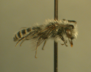 Colletes hyalinus oregonensis male